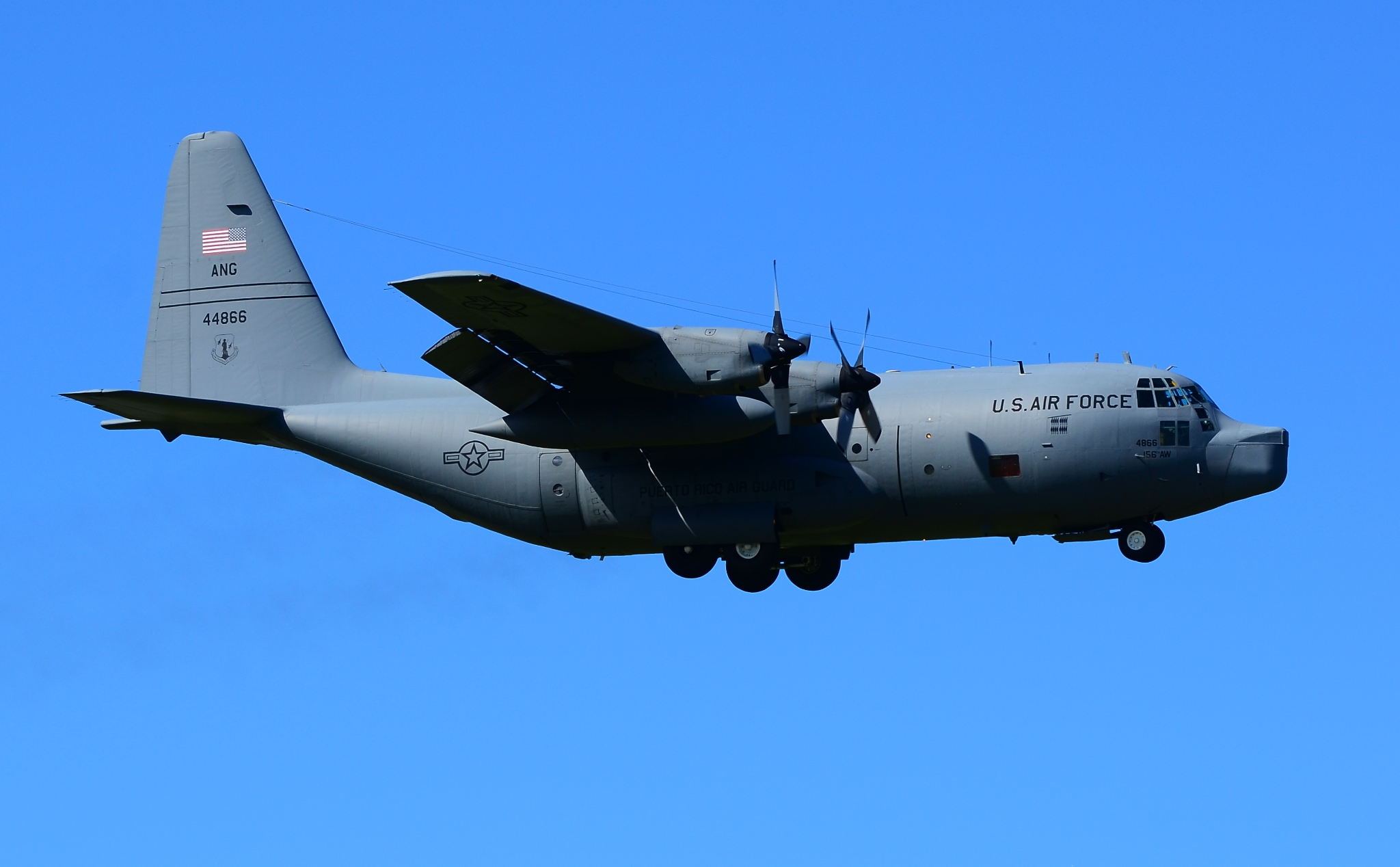 The 156th Airlift Wing (156 AW) is a unit of the Puerto Rico Air National Guard, stationed at Muñiz Air National Guard Base, in Carolina, Puerto Rico. If activated to federal service, the Wing is gained by the United States Air Force Air Mobility Command. San Juan - Luis Munoz Marin International (SJU / TJSJ) Puerto Rico, February 9, 2013 Tomás Del Coro